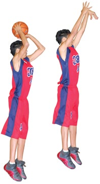 basketball